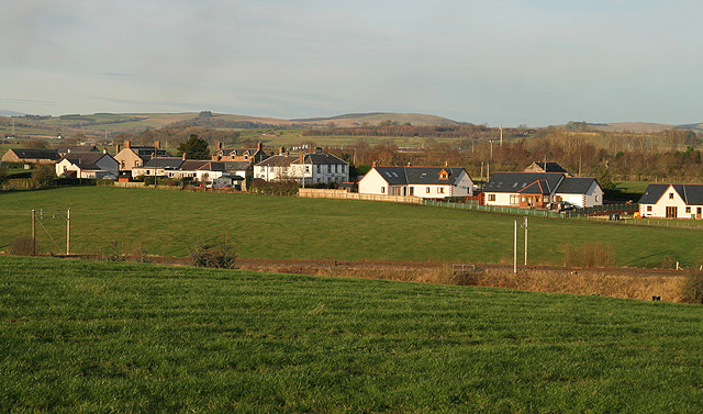 The village of Kirtlebridge A small village by the Kirtle Water and the Carlisle to Glasgow railway.